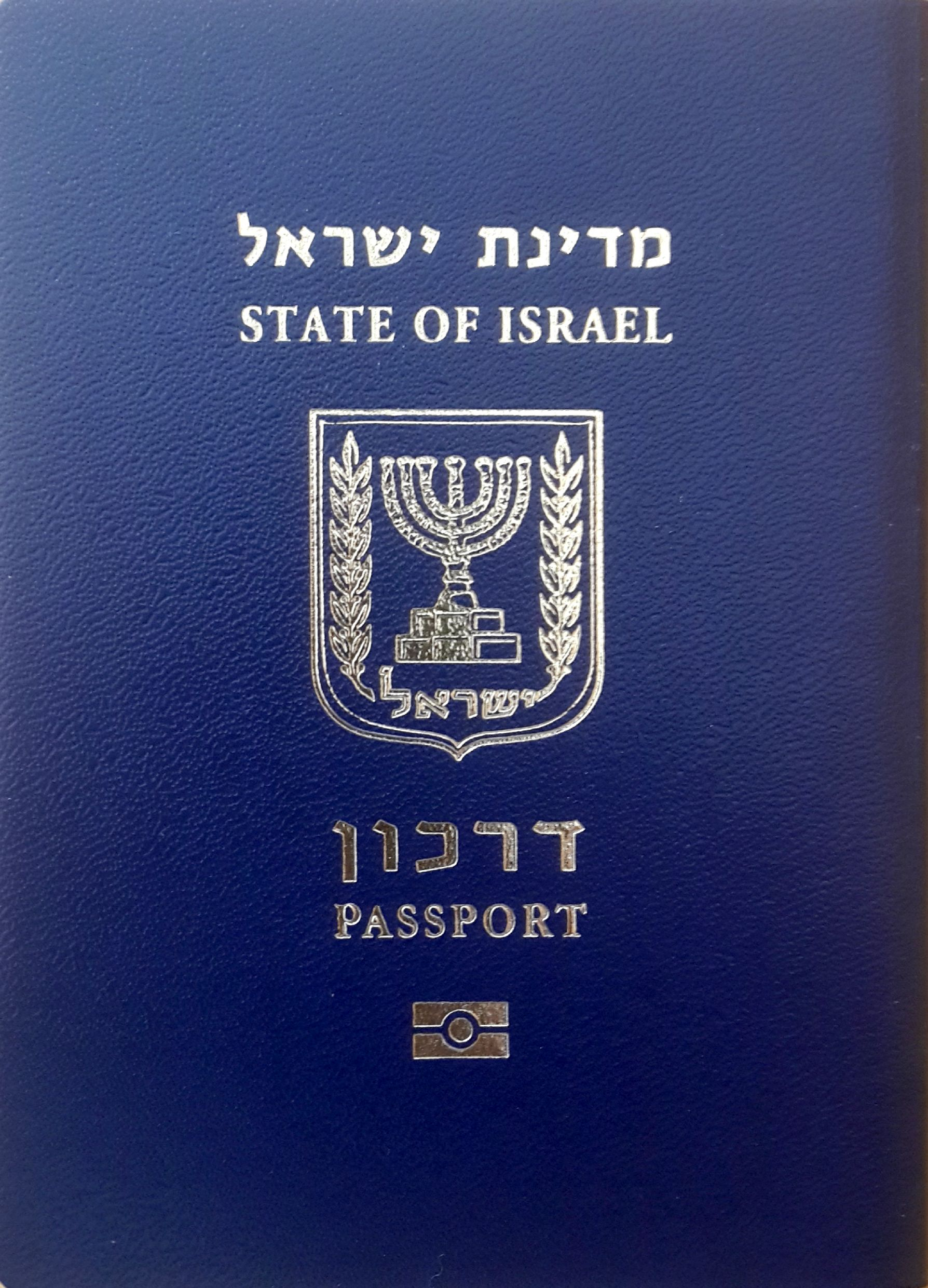 Biometric passport of Israel